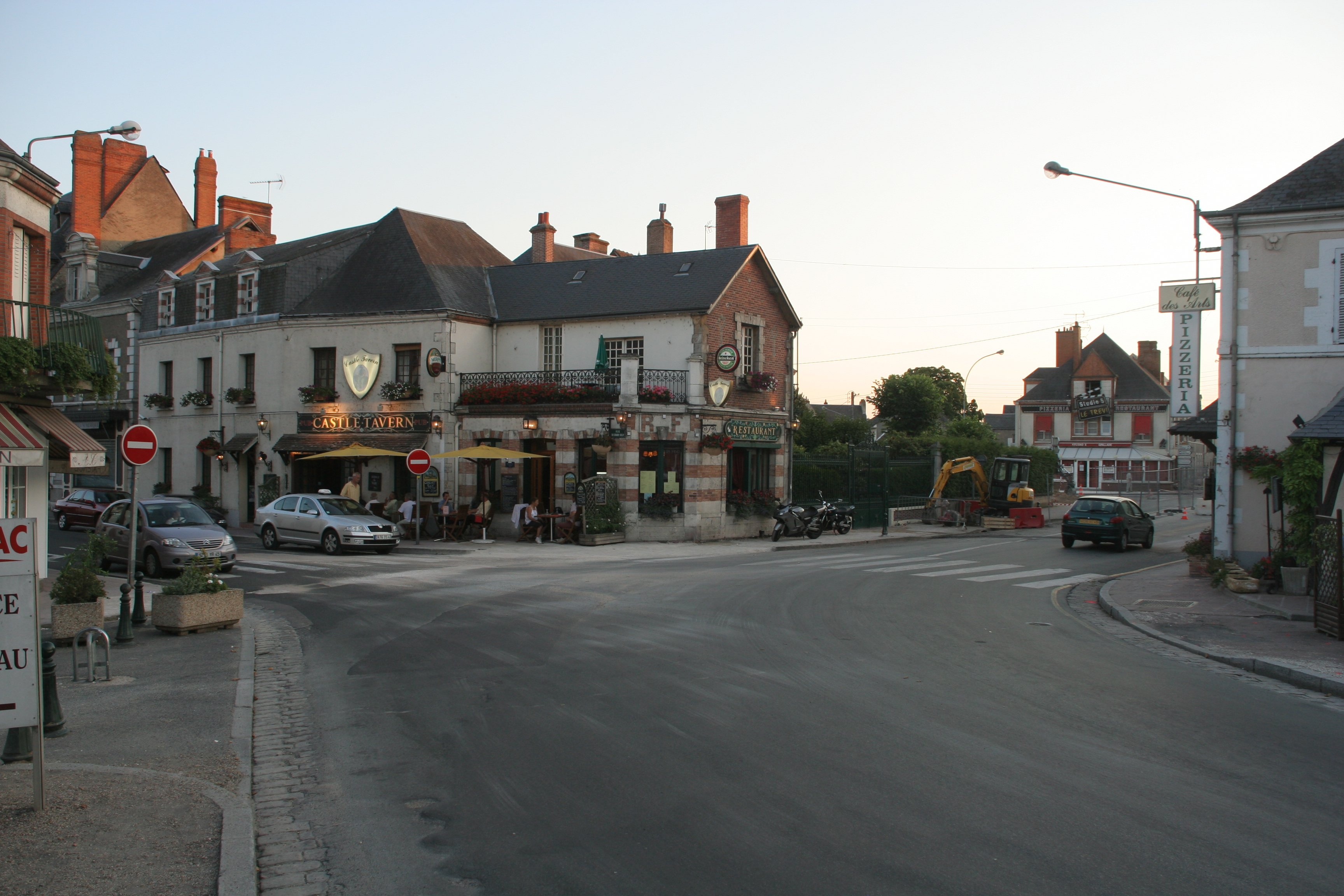 Sully sur Loire main street